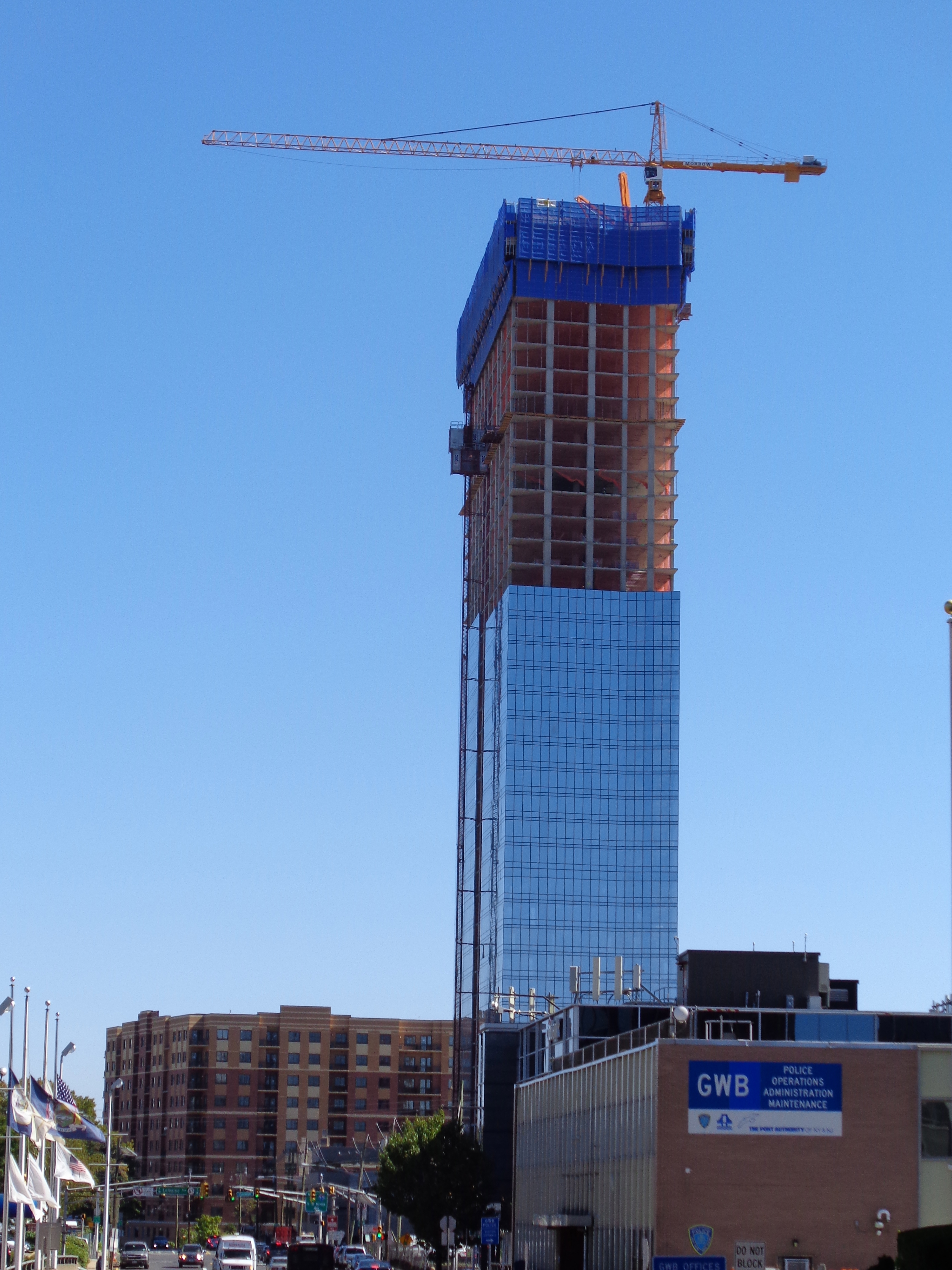 The Modern in Fort Lee under constrction will top-out at 47 storeys